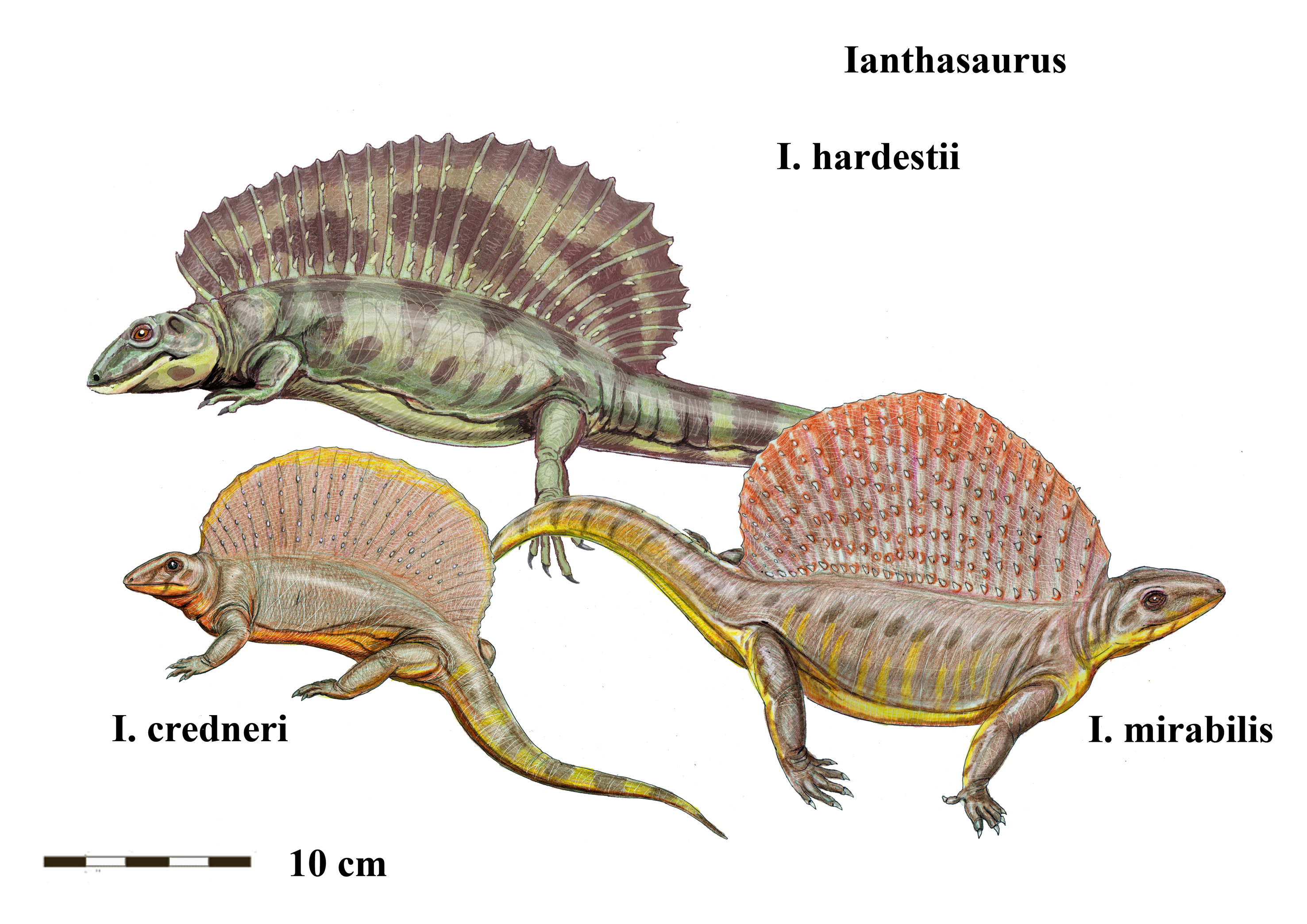 Species of Ianthasaurus , primitive Edaphosaur from Late Carboniferous - Early Permian of Europe and North America